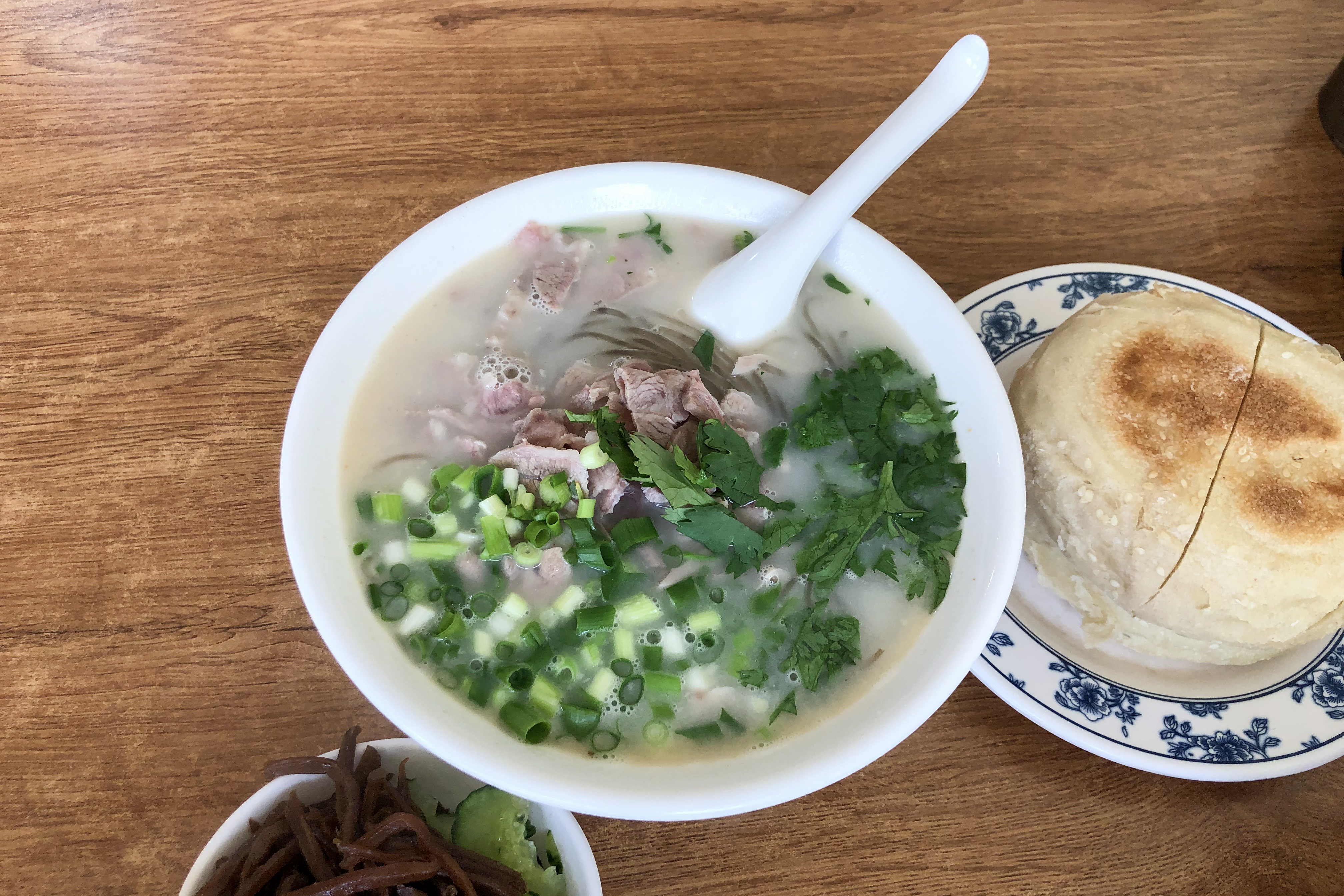 Better with shaobing.